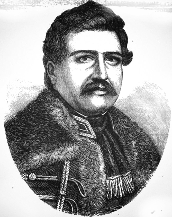 Gábor Döbrentei (1786–1851)